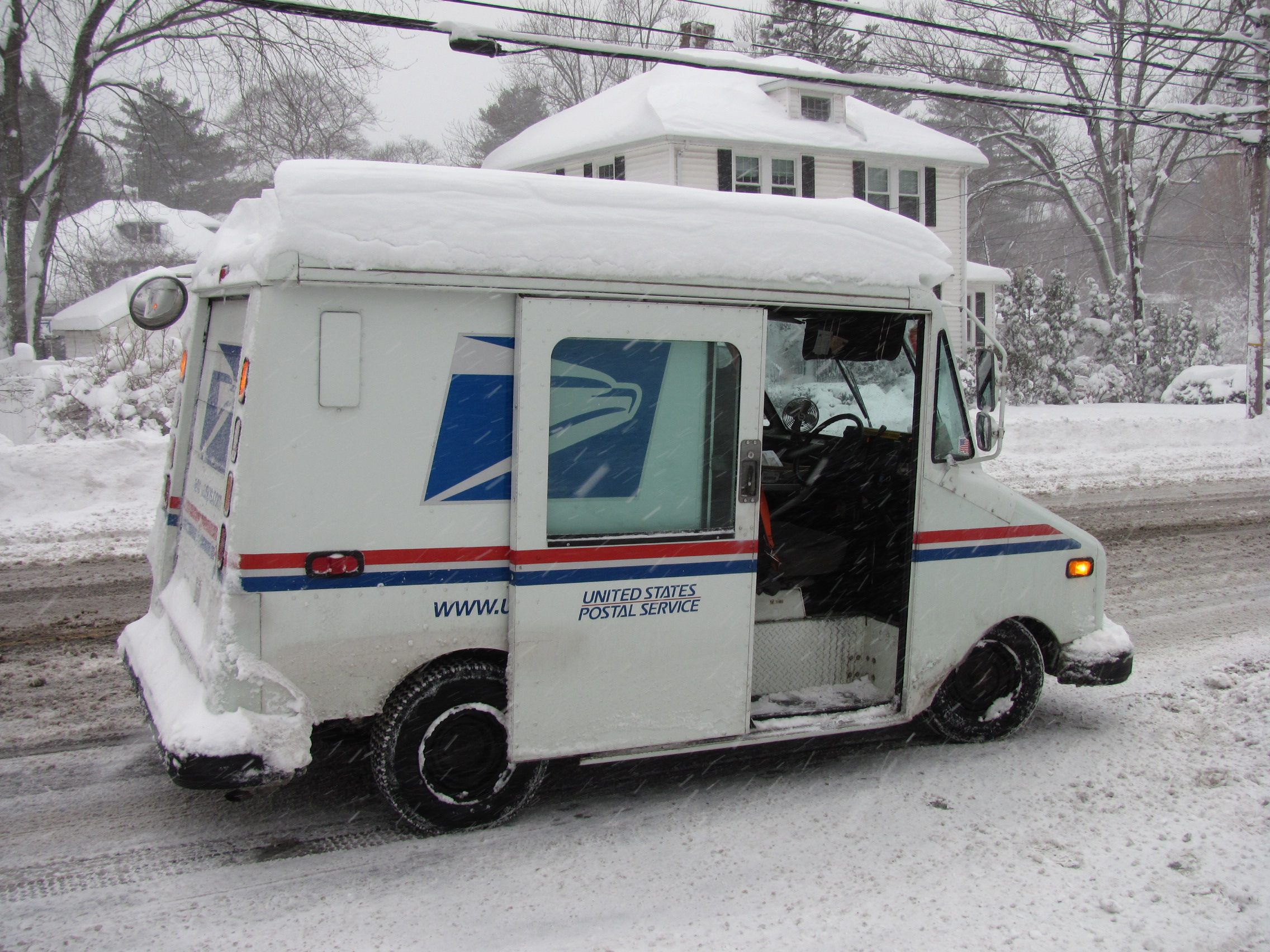 USPS Truck in Winter, Lexington Massachusetts